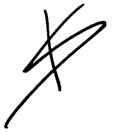 Signature of Kesha on Billboard's 2016 magazine cover "An Open Letter to Congress: Stop Gun Violence Now"